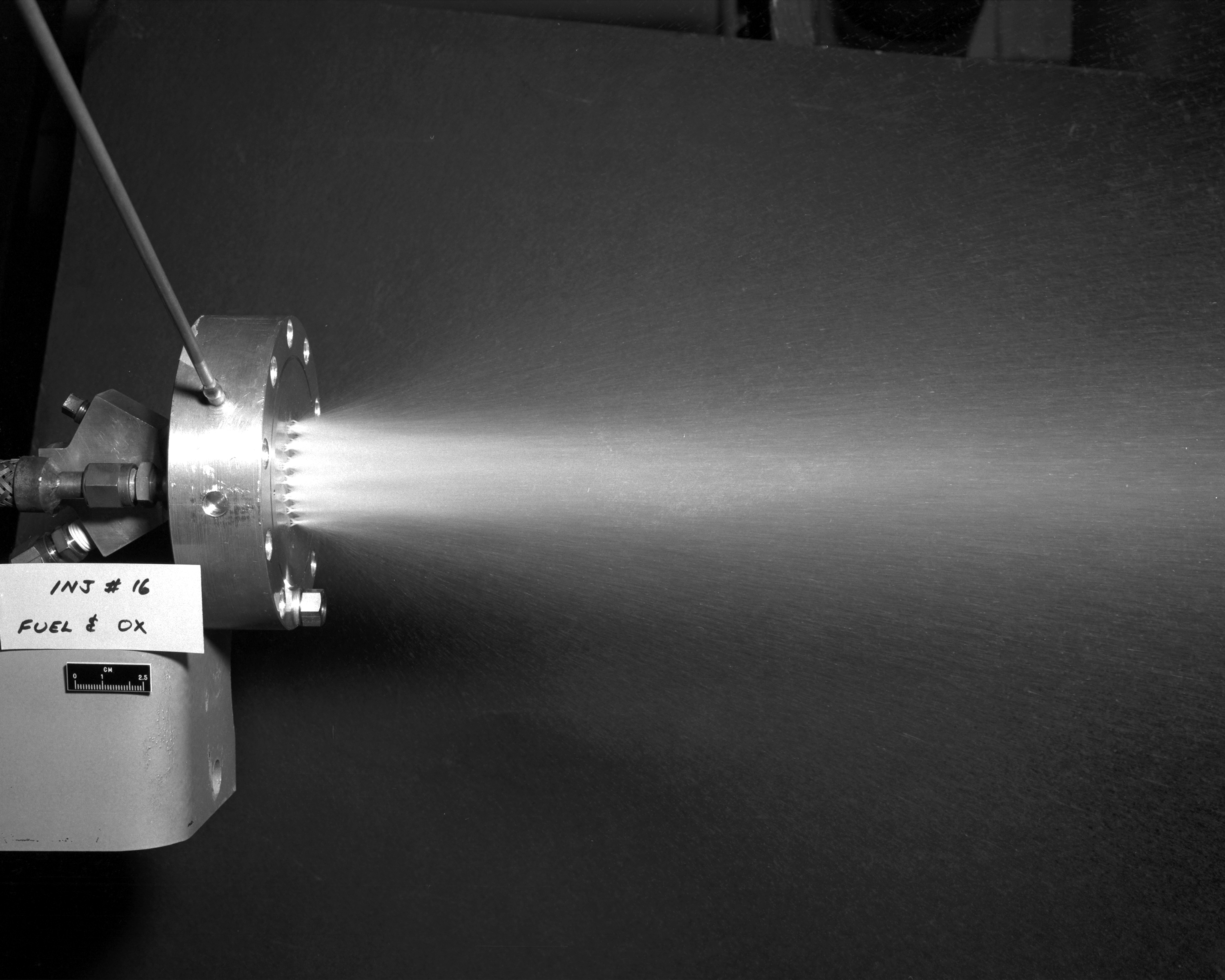 Rocket Engine Chamber #C-3-109-1.